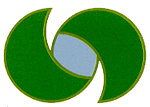 Ikeda Nagano chapter